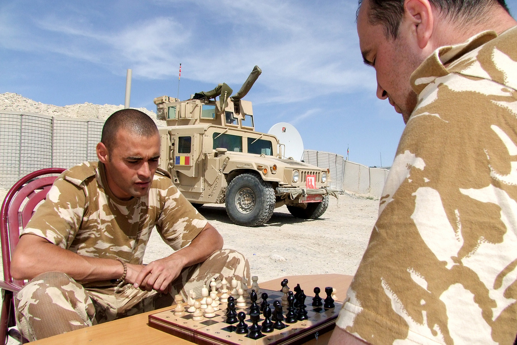 Romanian soldiers know how to relax between two missions, Lagman, Afghanistan, April 24th, 2009. Photo by Constantin Mireanu of Romania.